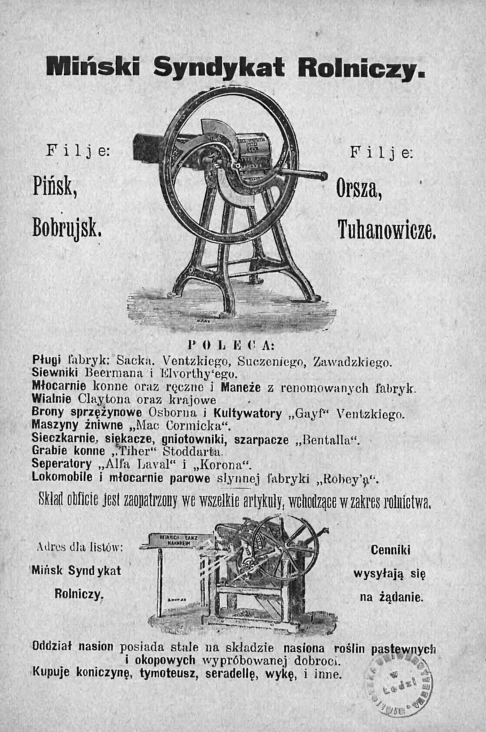 Commercial advertising of Minsk agricultural society in magazine "Kalendarz Minski na rok przestępny 1908 ", 1907 AD